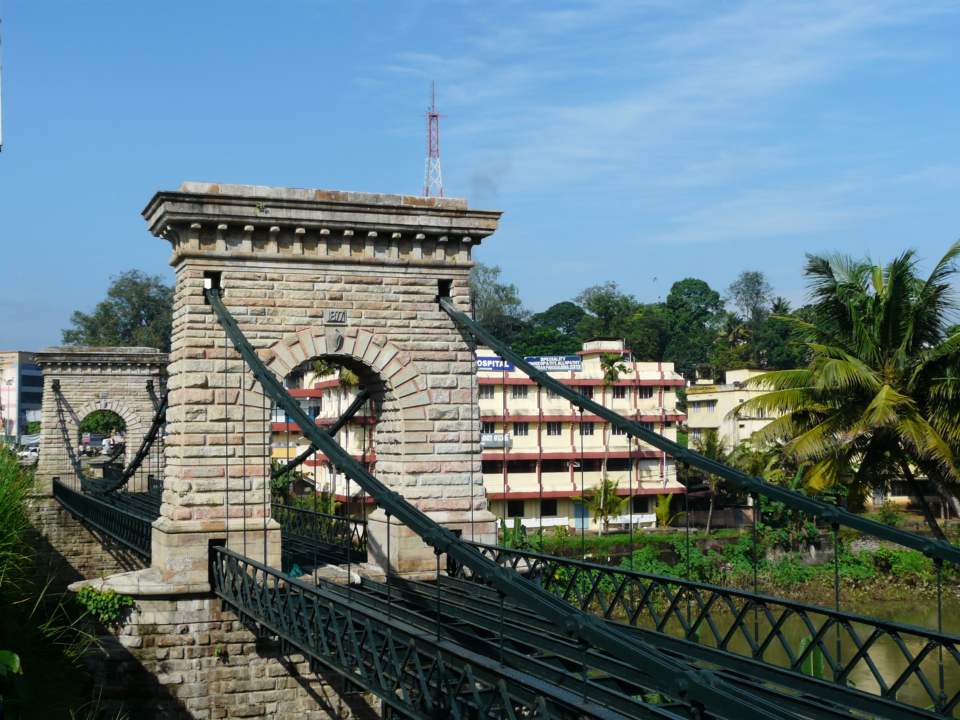 The 400 ft long suspension bridge at Punalur, Kerala was constructed in the year 1877 across river Kallada.